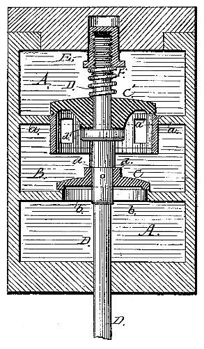 A balanced (2-disc) poppet valve from 1886, called a puppet valve by the inventor. A - high pressure steam B - inlet to cylinder C - valve discs D - valve stem E - valve guide and adjusting nut for spring F - spring to ensure solid seal of larger disc